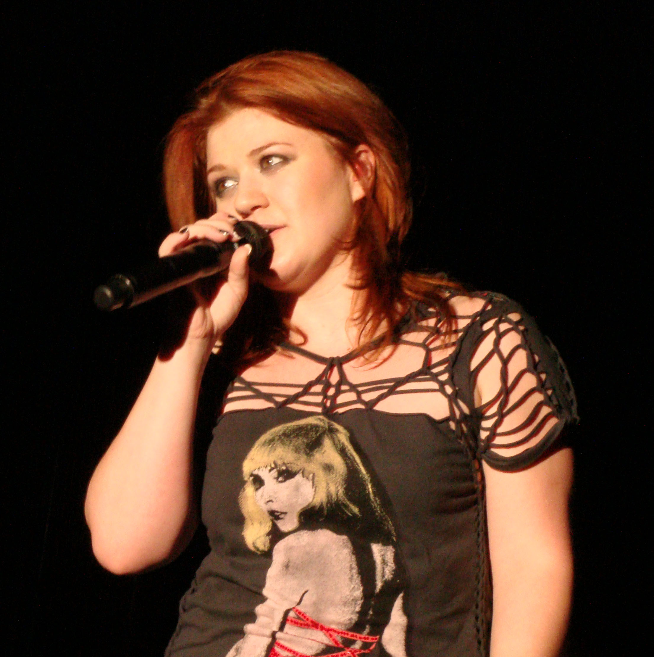 Kelly Clarkson